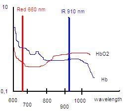 the absorption of light by hemoglobin